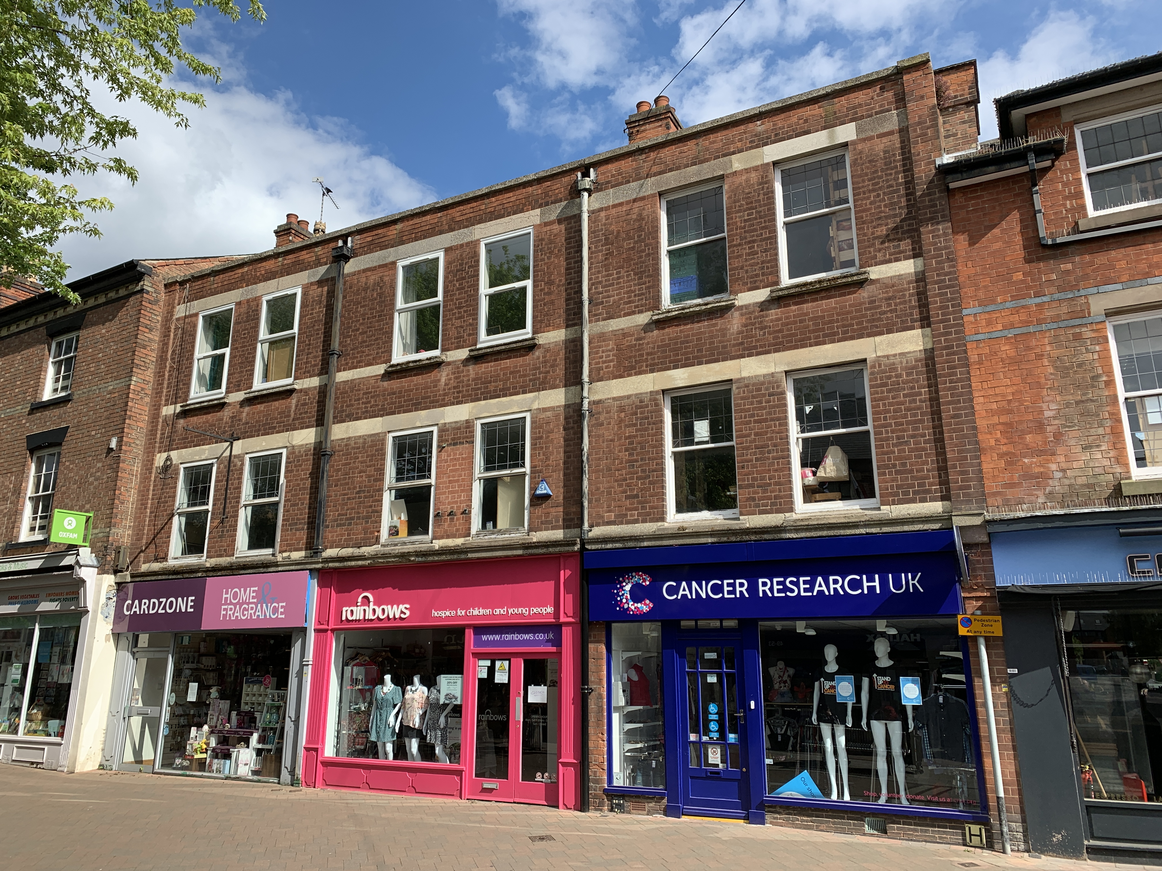 Three shops for Anderson, 52-56 High Road, Beeston 1932-33. Architect Alexander Wilson